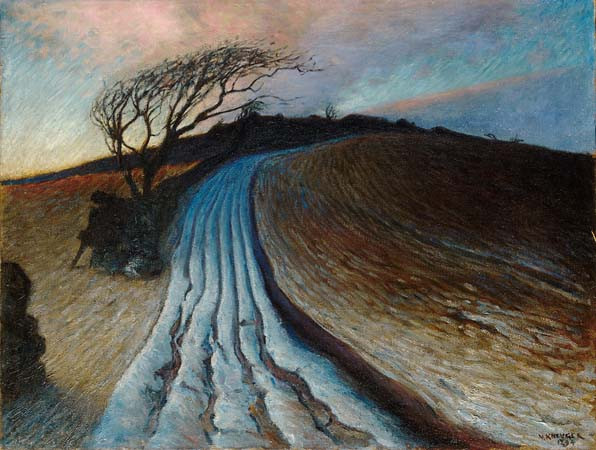 October Evening at Apelvik